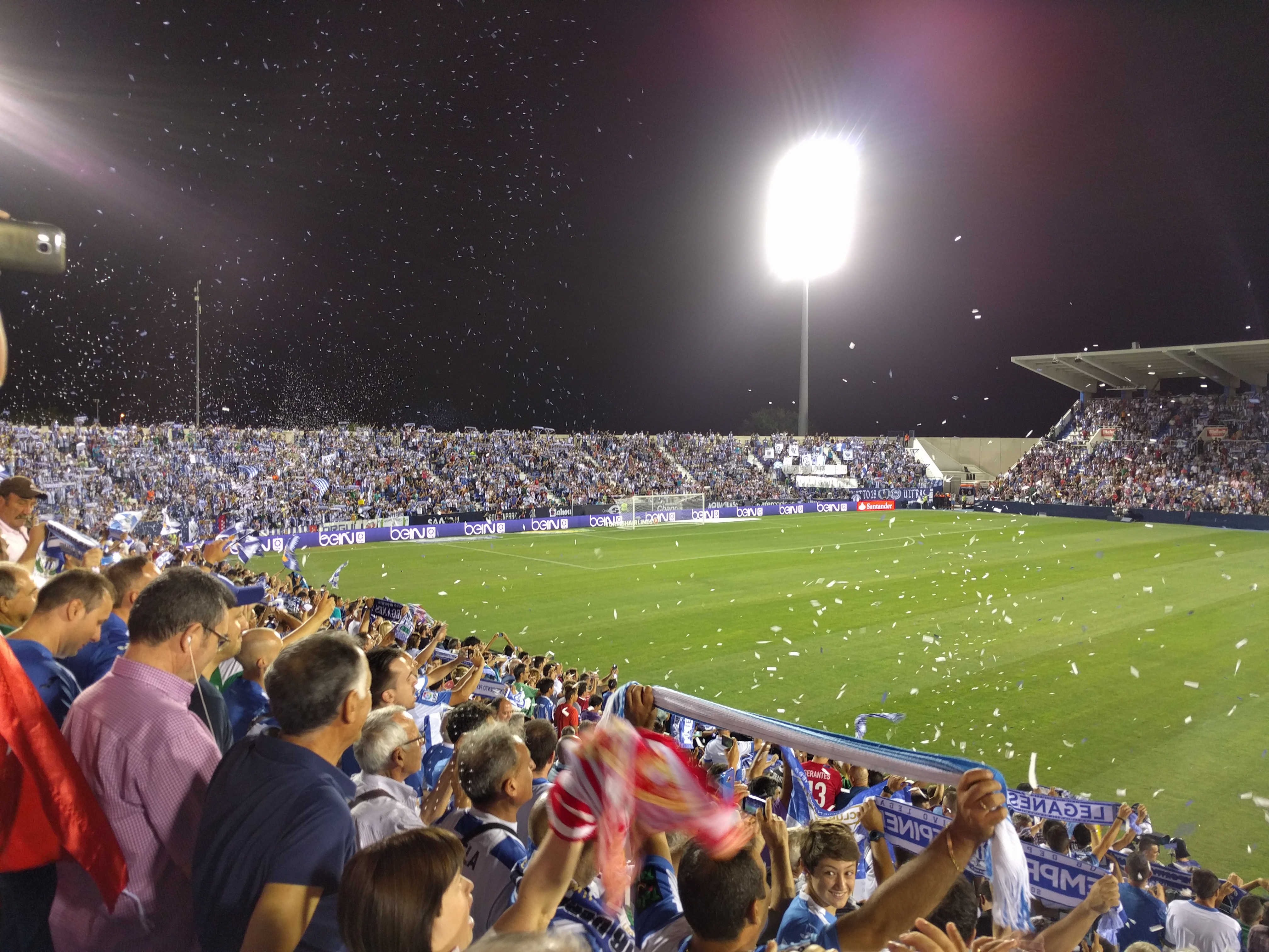 CD Leganés 0:0 Atlético de Madrid, 27th August 2016